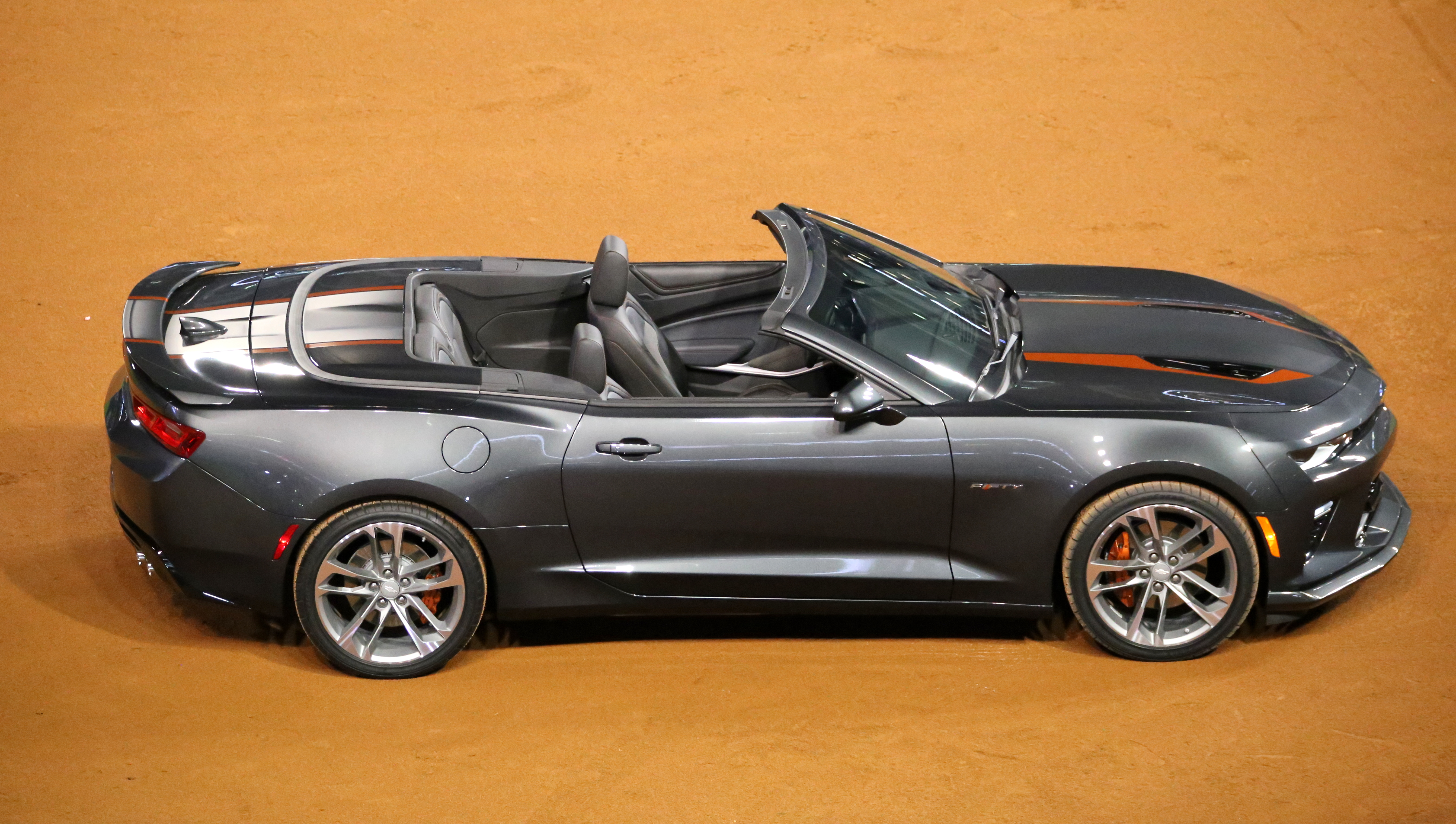 And to World Series MVP Ben Zobrist, goes this 50th anniversary Chevy Camaro.